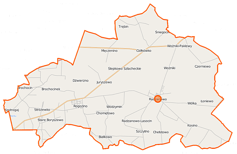 Map of Gmina Radzanowo, Poland This map of Radzanowo (gmina) was created from OpenStreetMap project data, collected by the community. This map may be incomplete, and may contain errors. Don't rely solely on it for navigation. Border coordinates52.636419.7277←↕→19.978052.5373